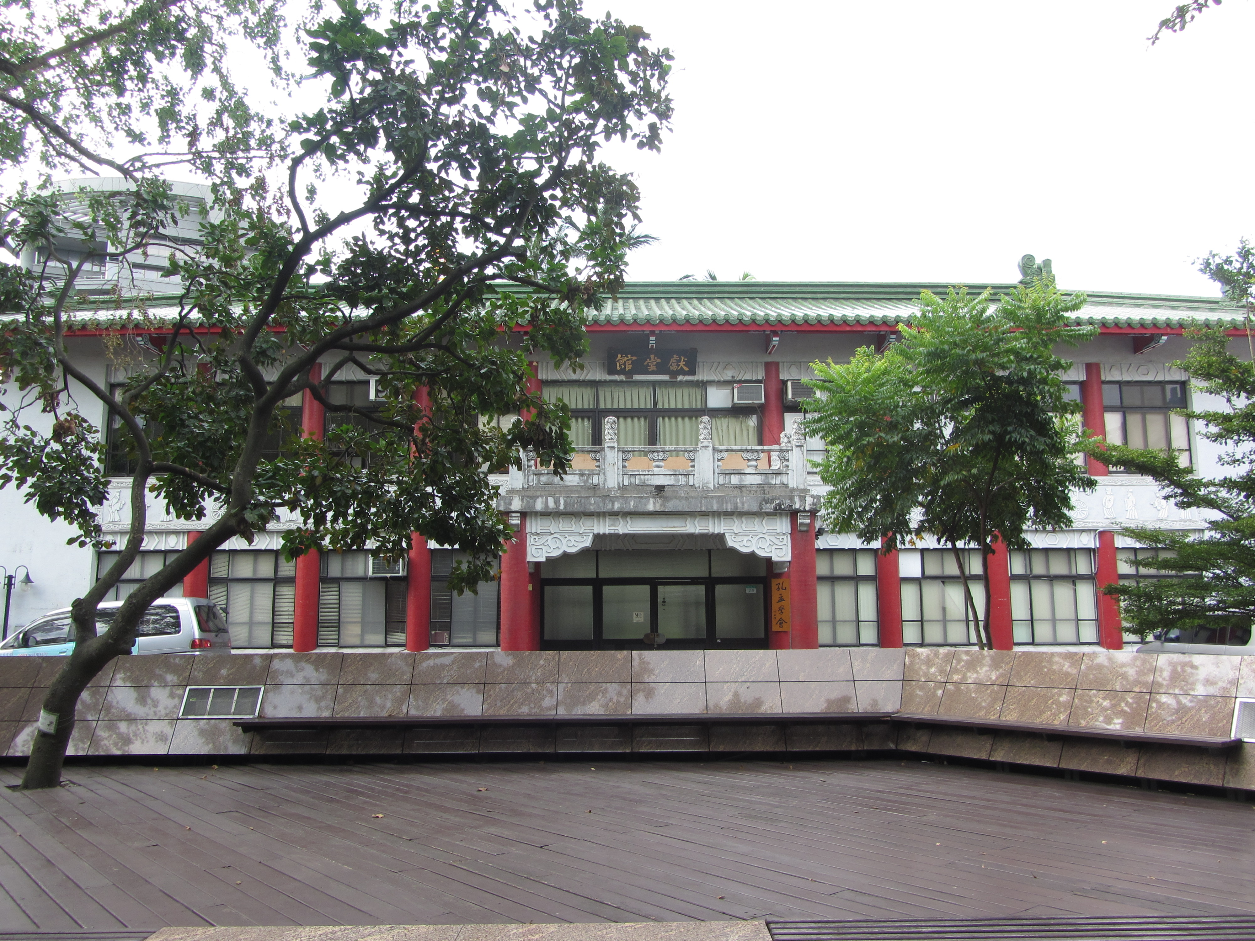 Hall of Confucius-Mencius Society of the Republic of China